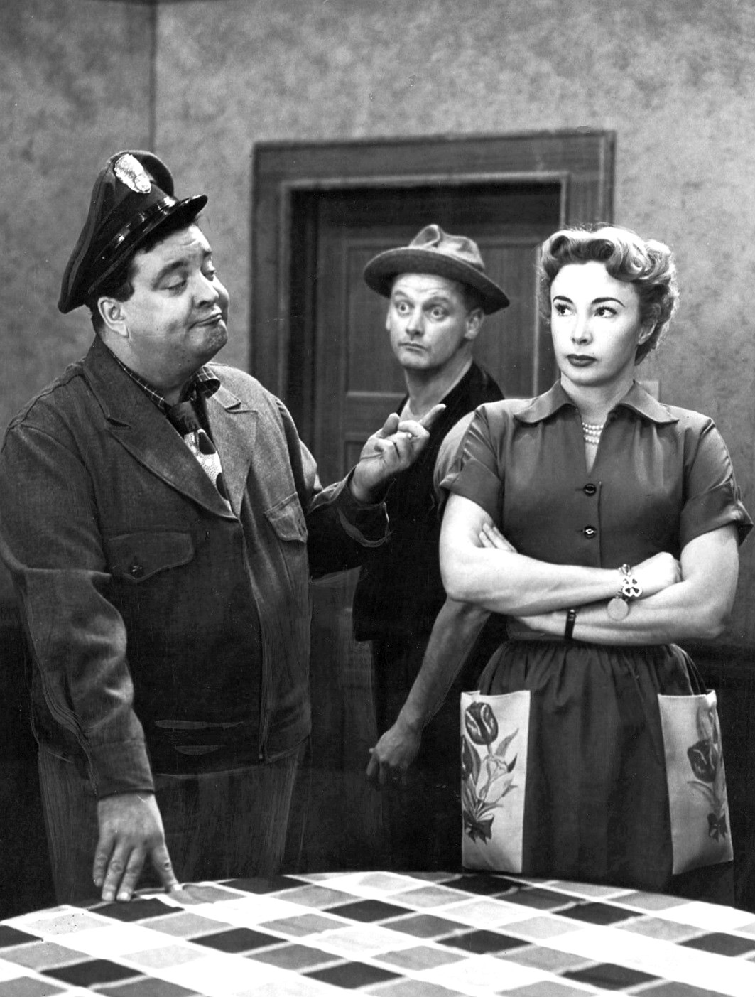 Publicity photo of Jackie Gleason, Art Carney, and Audrey Meadows in The Honeymooners.